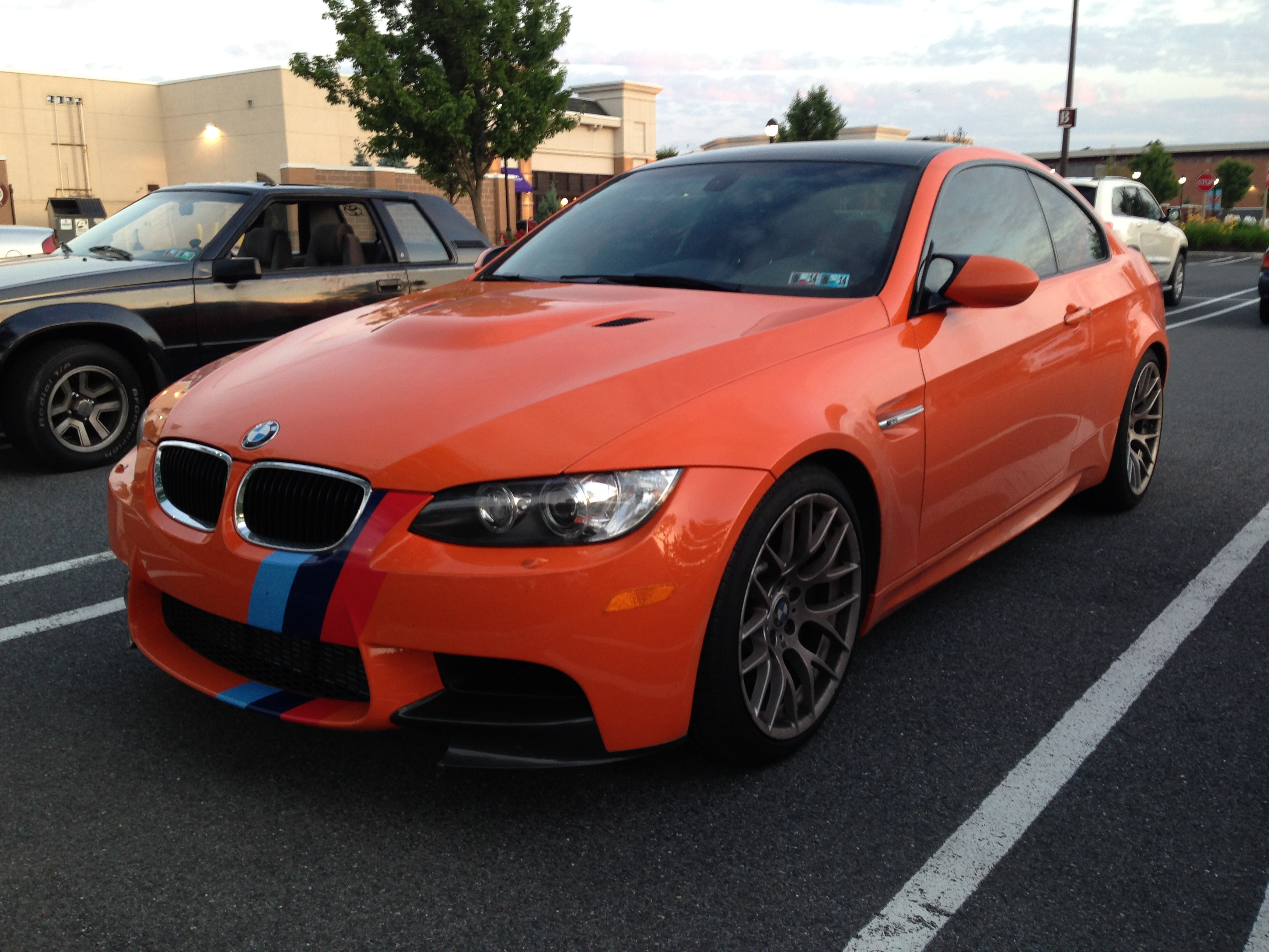 BMW M3 Lime Rock Park Edition